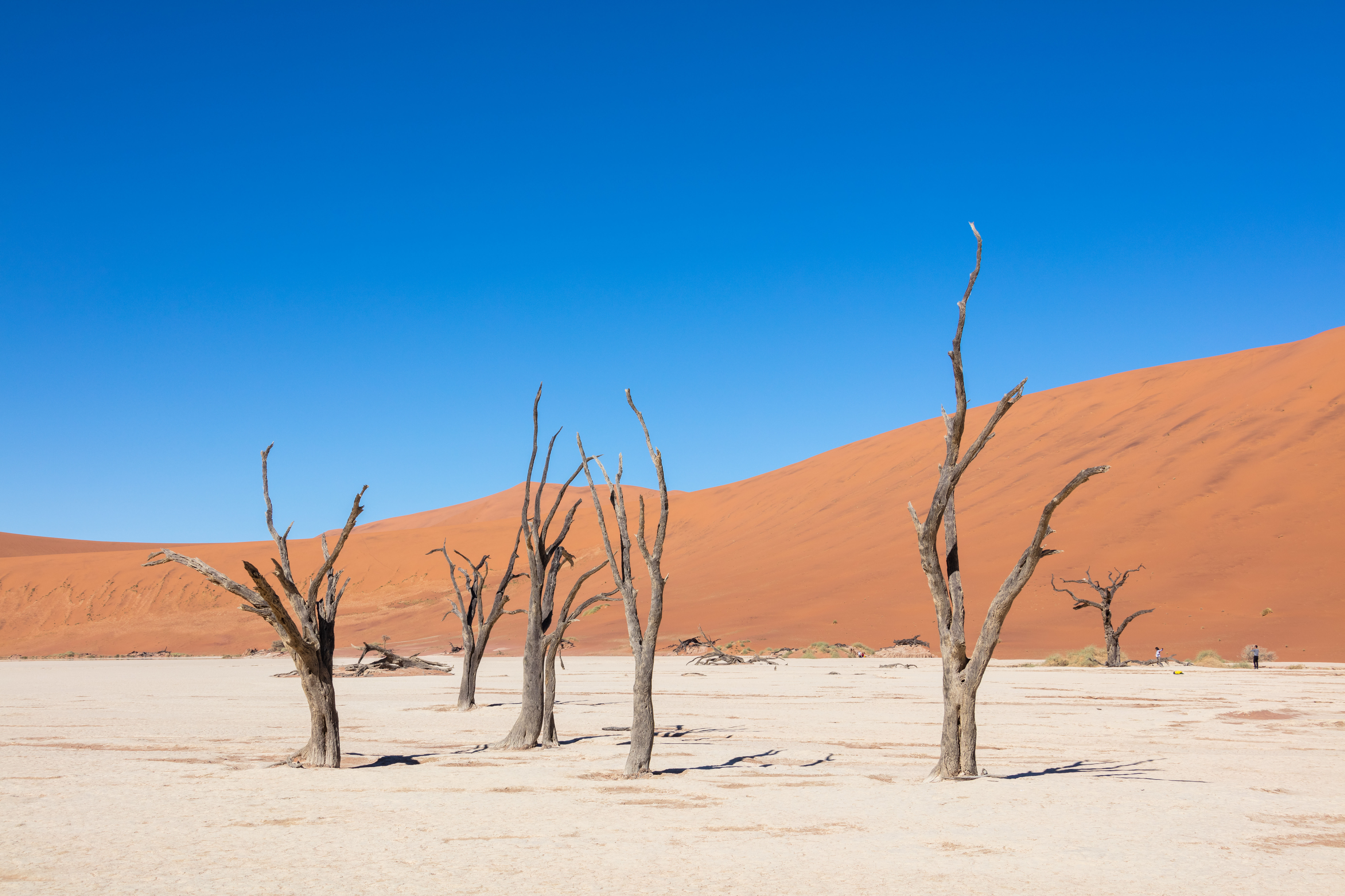 Dead Vlei, Sossusvlei, Namibia